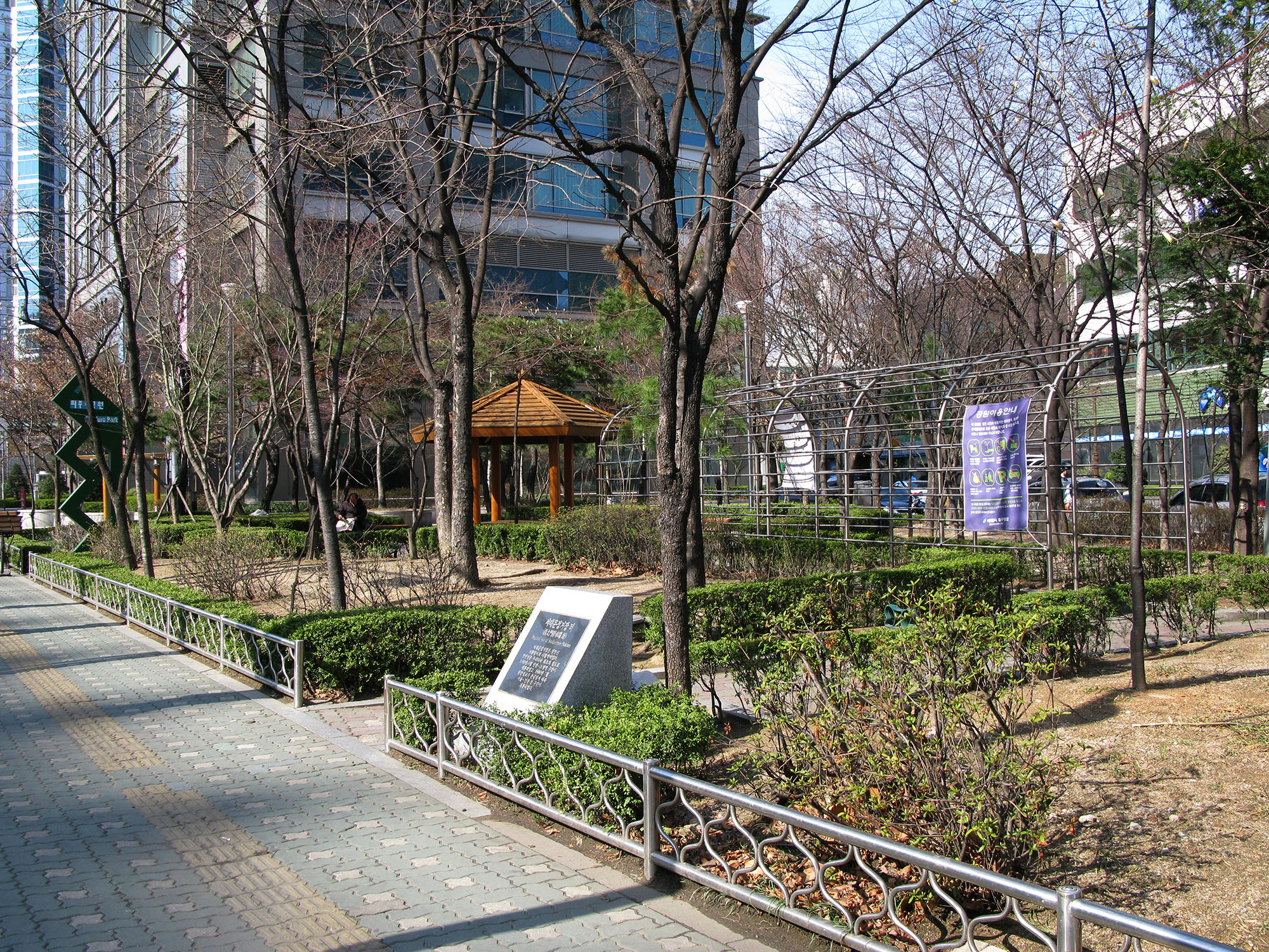 Seodaemun Station Site